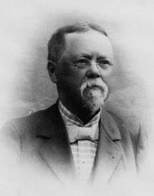 City architect of Tampere Frans Ludvig Calonius.